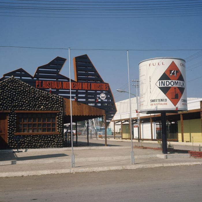 Australia Indonesian Milk Industries (Indomilk) advertising pavilion at the trade fair on Merdeka Square